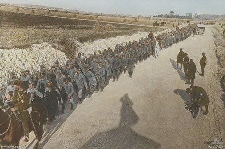 "A bunch of souvenirs". A hand-coloured print of a photograph taken by an unknown Australian soldier on 8 August 1918. The German general Erich von Ludendorff termed 8 August "a black day" for Germany. The photograph shows a column of German prisoners walking along the Villers Bretonneux-Amiens Road. Australian soldiers watch the prisoners. The photographer is seen in the shadow at the bottom of the photograph.